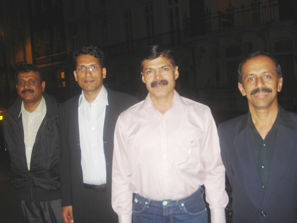 Shri T P Senkumar IPS, ADGP in London along with Shri. Ajithkumar Nair, Protocol Officer, High Commission of India, London, Shri. Vijayakumar IPS, DGP & DG of CRPF and Shri. Chandrashekharan IPS ADGP, Law and Order South zone Kerala State.